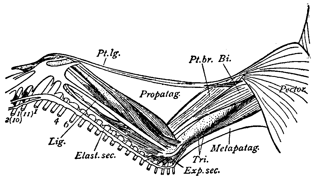 Wing muscles of a Goose. Bi, Biceps: Elast. sec., elastic vinculum and Exp.sec., expansor secundariorum; Pt.br and Pt.lg, (From Newton's Dictionary of Birds, by permission of A. & C. Black.) Cleaned version of scanned EB image taken from